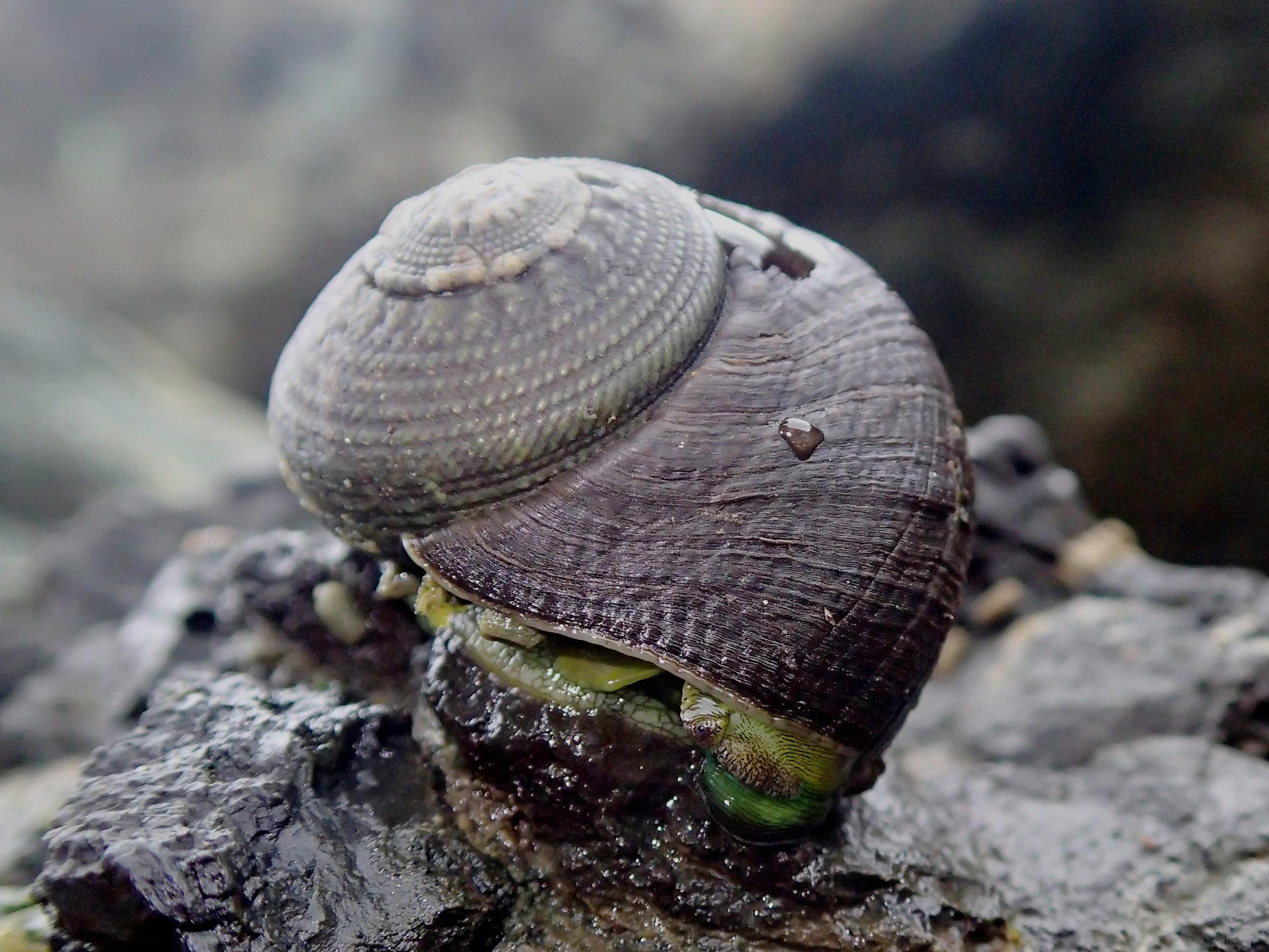 Lunella ogasawarana Nakano, Takahashi & Ozawa, 2007 grazing algae on exposed rocky shore. Location: Chichijima Is., the Ogasawara Islands, Japan.